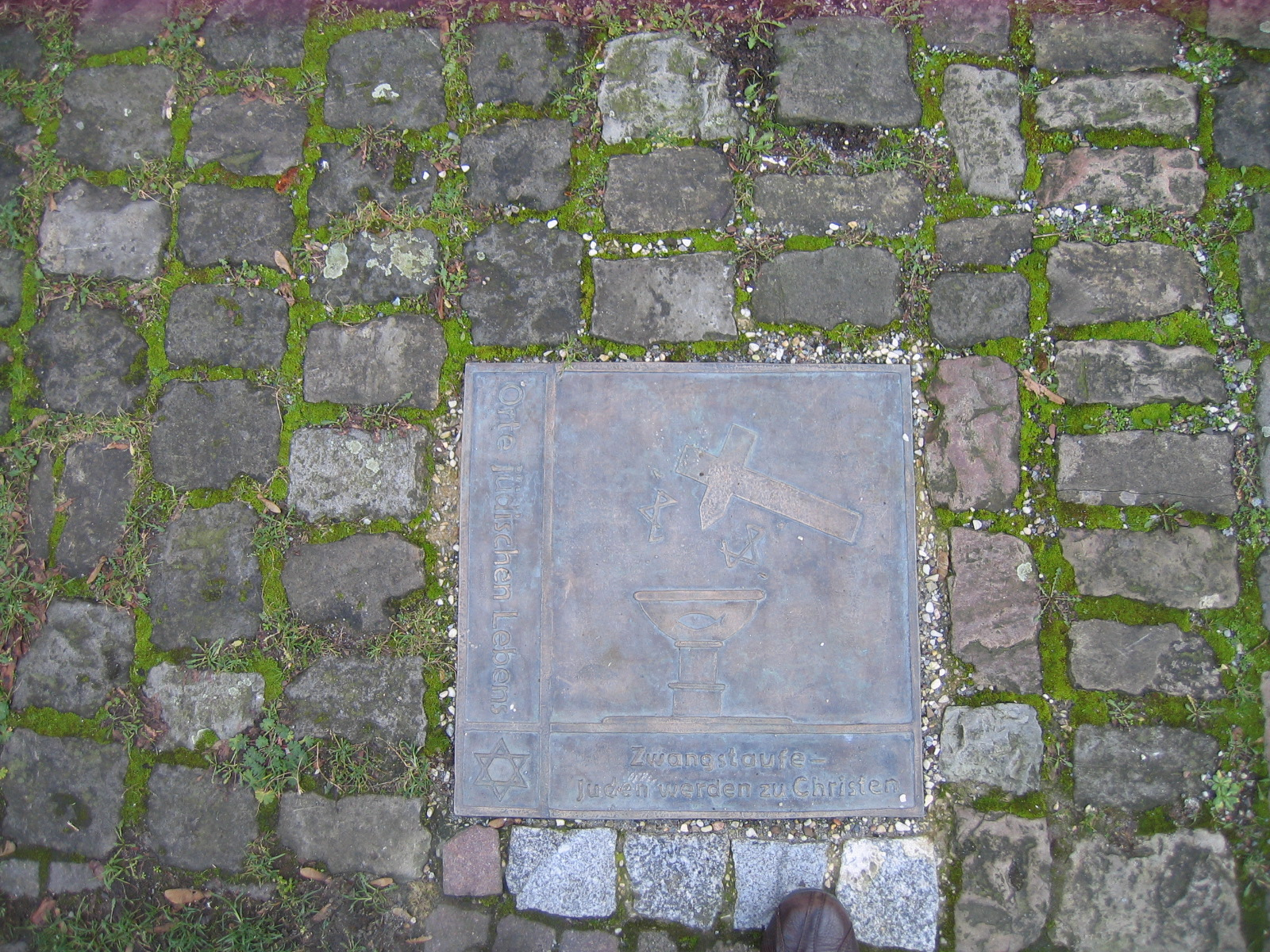 Memorial plate for Jewish people in Herford, District of Herford, North Rhine-Westphalia, Germany.